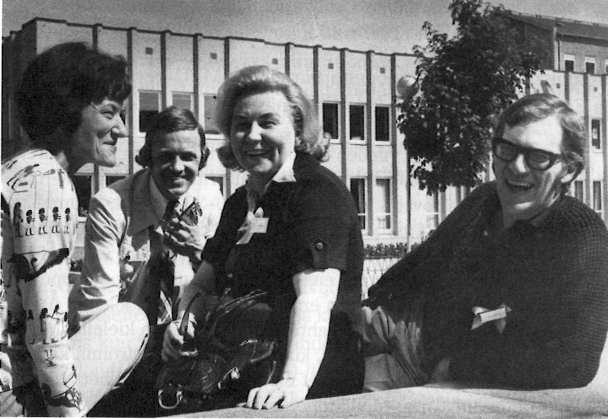 Photograph of the Finnish music pedagogue Ellen Urho (center) with her Norwegian colleagues.